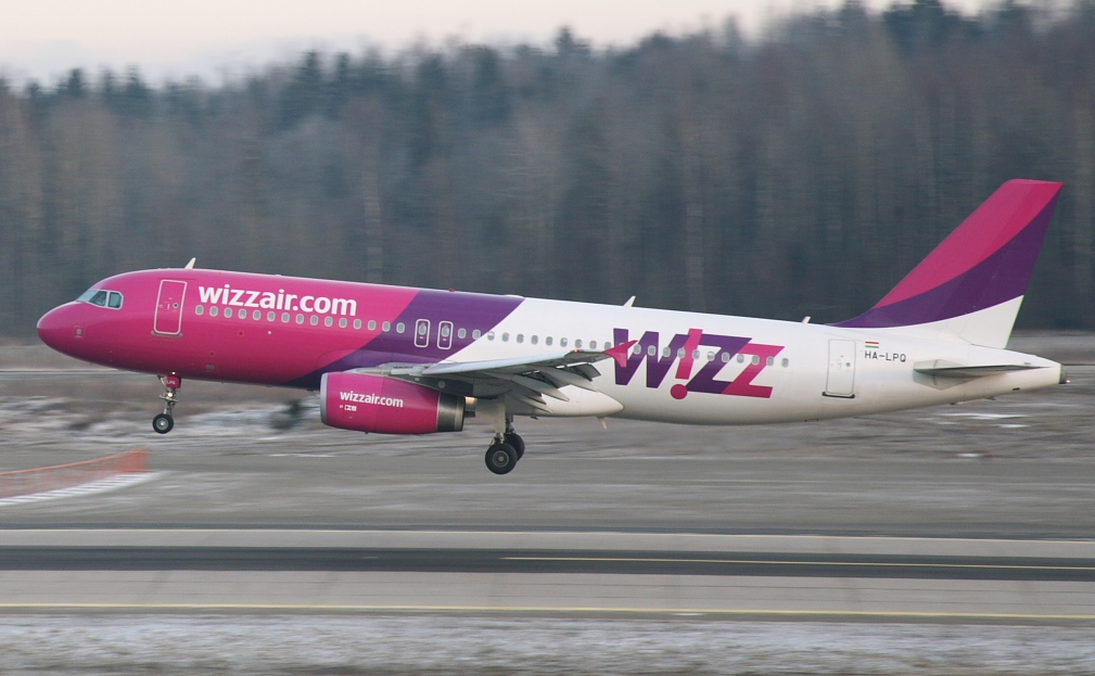 A Wizz Air A320 landing at Sandefjord Airport, Torp in Norway